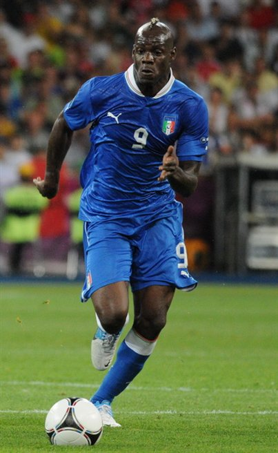 Mario Balotelli at Euro 2012 match against England